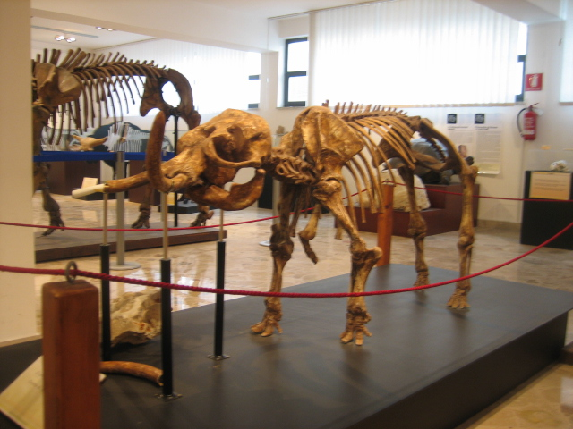 Sceletton of an elephant.